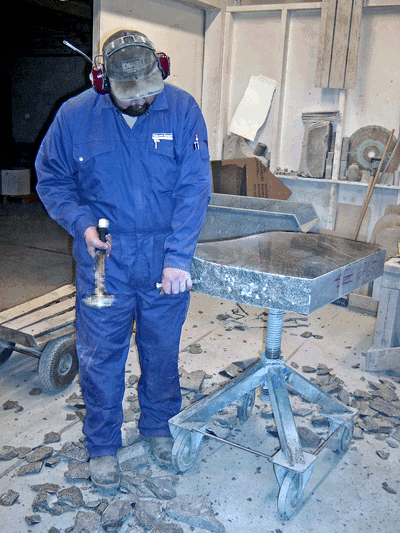 A stonemason working a granite headstone with hammer and point chisel